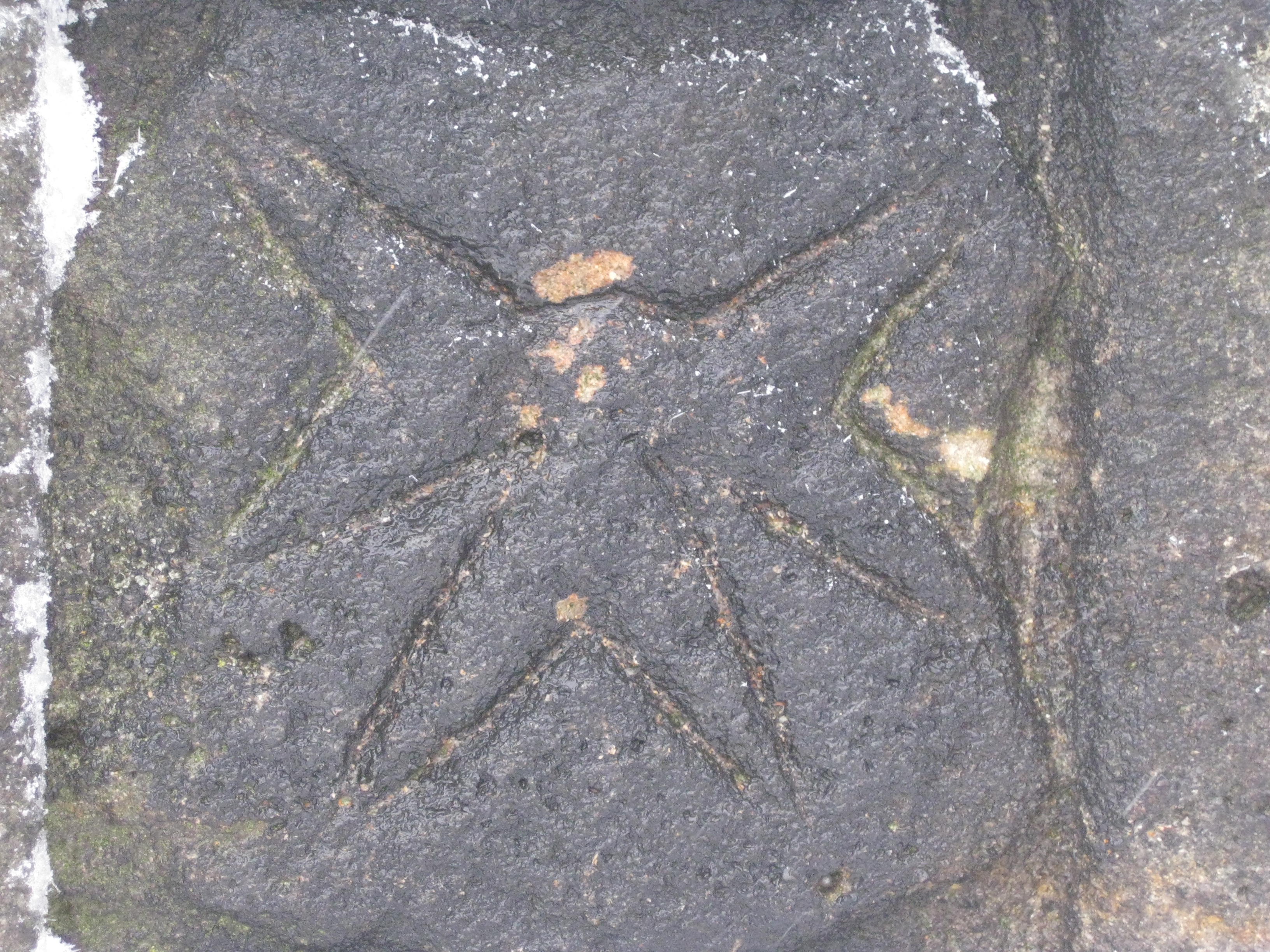 Natural monument Calvary in Motol in Prague, Czech Republic